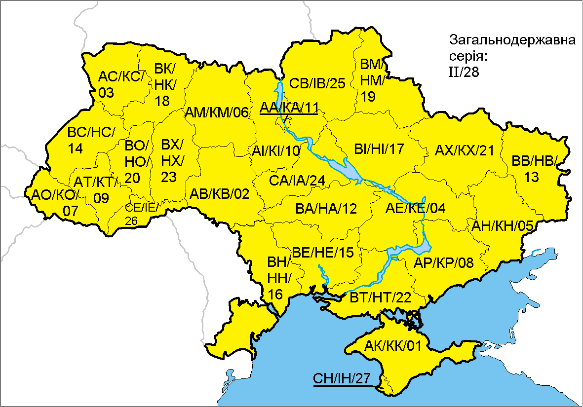 Automobile codes of regions of Ukraine